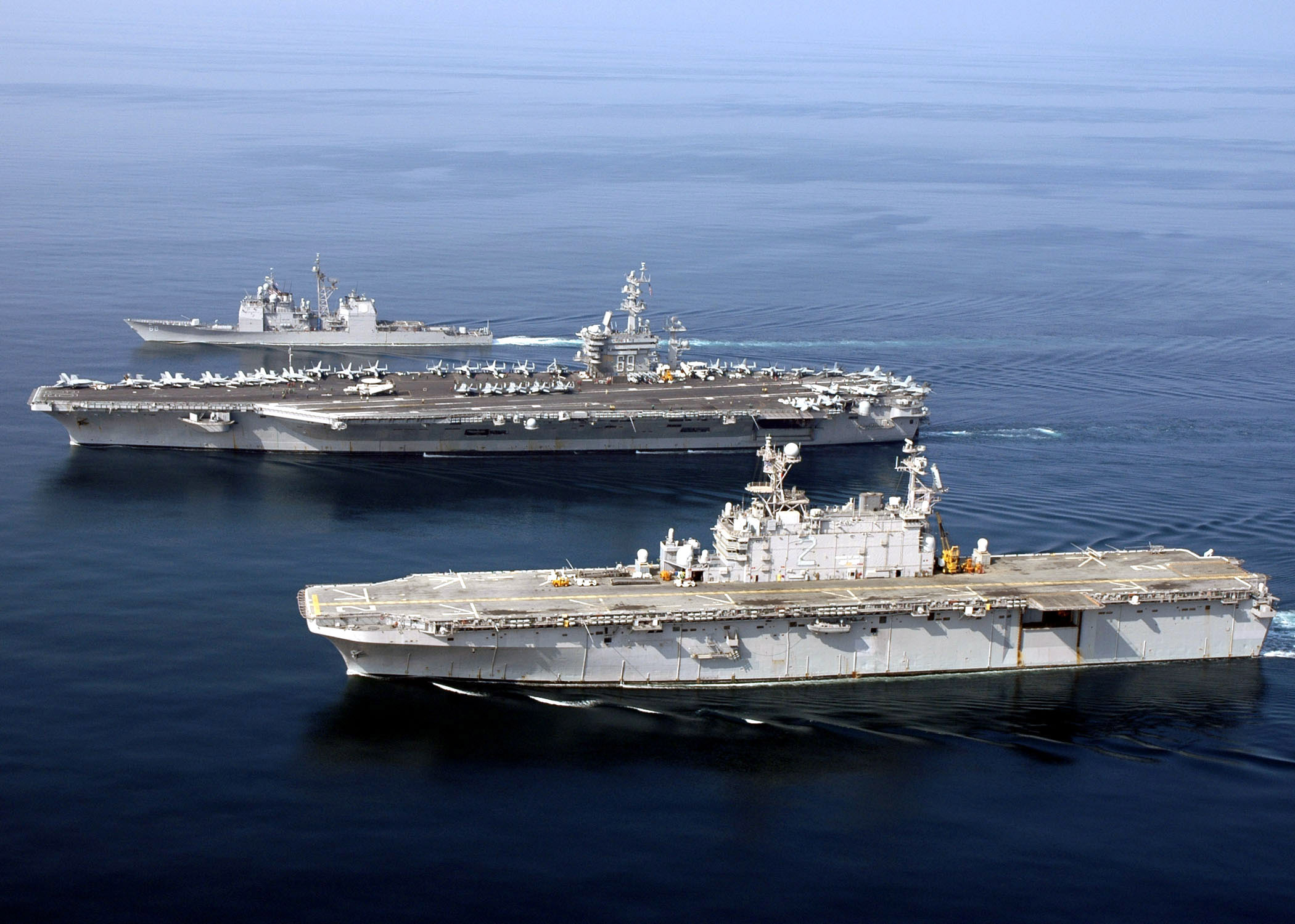 The guided-missile cruiser USS Anzio (CG 68), Nimitz-class aircraft carrier USS Dwight D. Eisenhower (CVN 69), and amphibious assault ship USS Saipan (LHA 2) sail in formation during a photographic exercise.